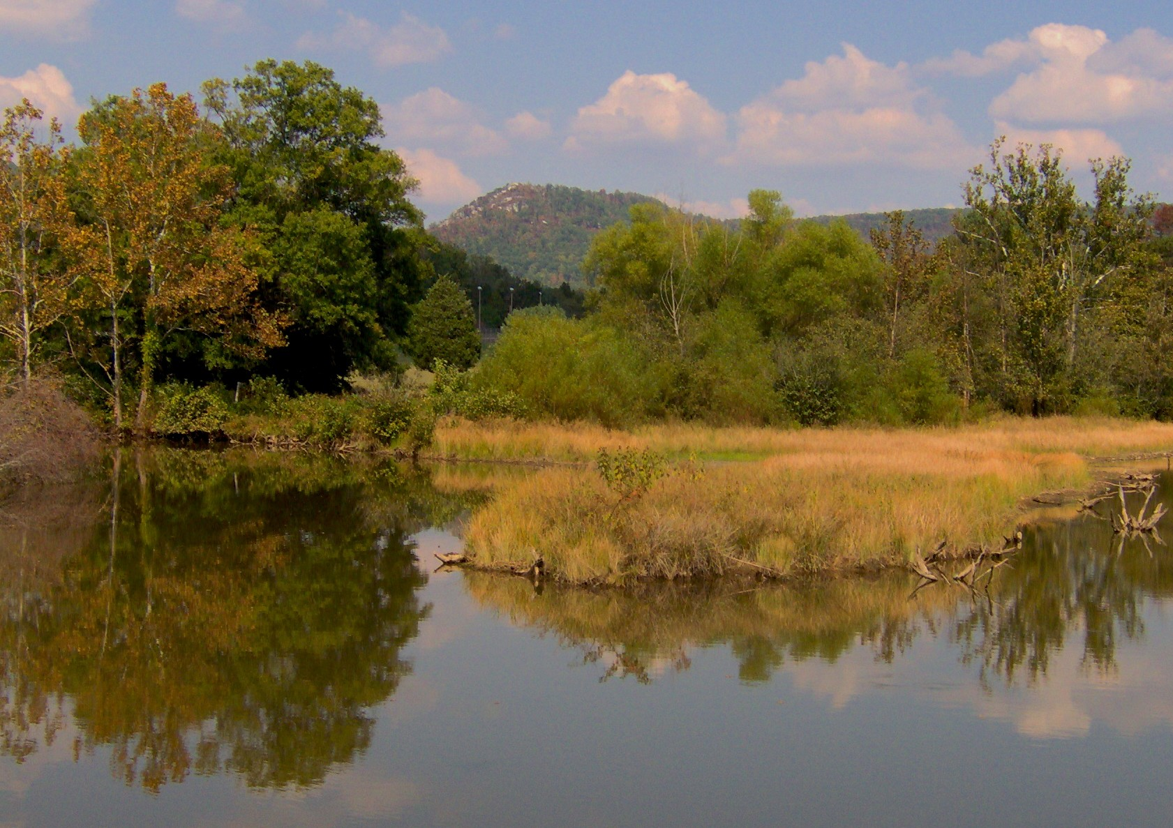 Looking across an inlet of Cove Lake at Cove Lake State Park in Campbell County, Tennessee, in the southeastern United States. Devils Racetrack, the rocky western end of Cumberland Mountain, is visible above the treeline.